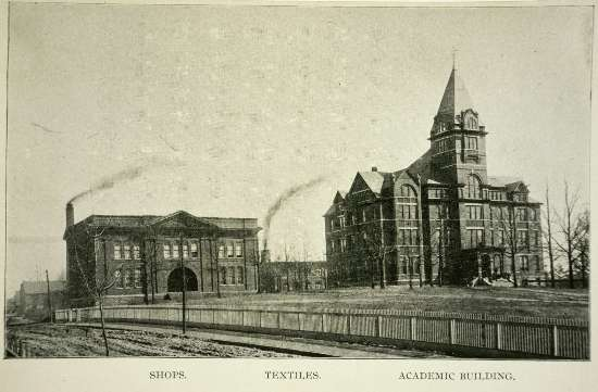 Description: A picture taken of Georgia Tech's new shop building (left) and Tech Tower (right) circa 1899. The picture appears to be taken from Cherry Street near North Avenue, facing north. It was most likely published contemporaneously and used to publicize the school. According to [1], it was published around 1899. Source: From on and